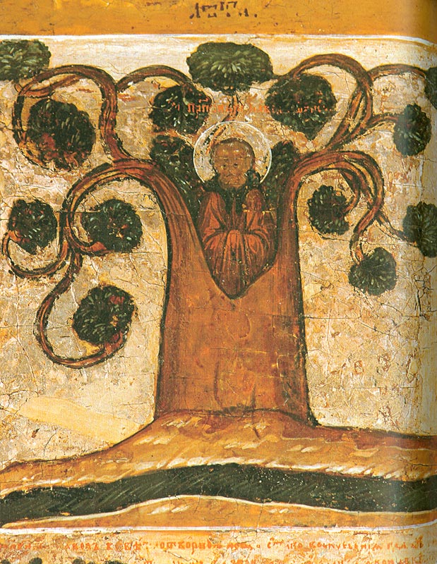 Saint Pavel of Obnora